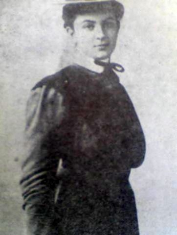 Portrait of Mina Todorova, friend of Peyo Yavorov